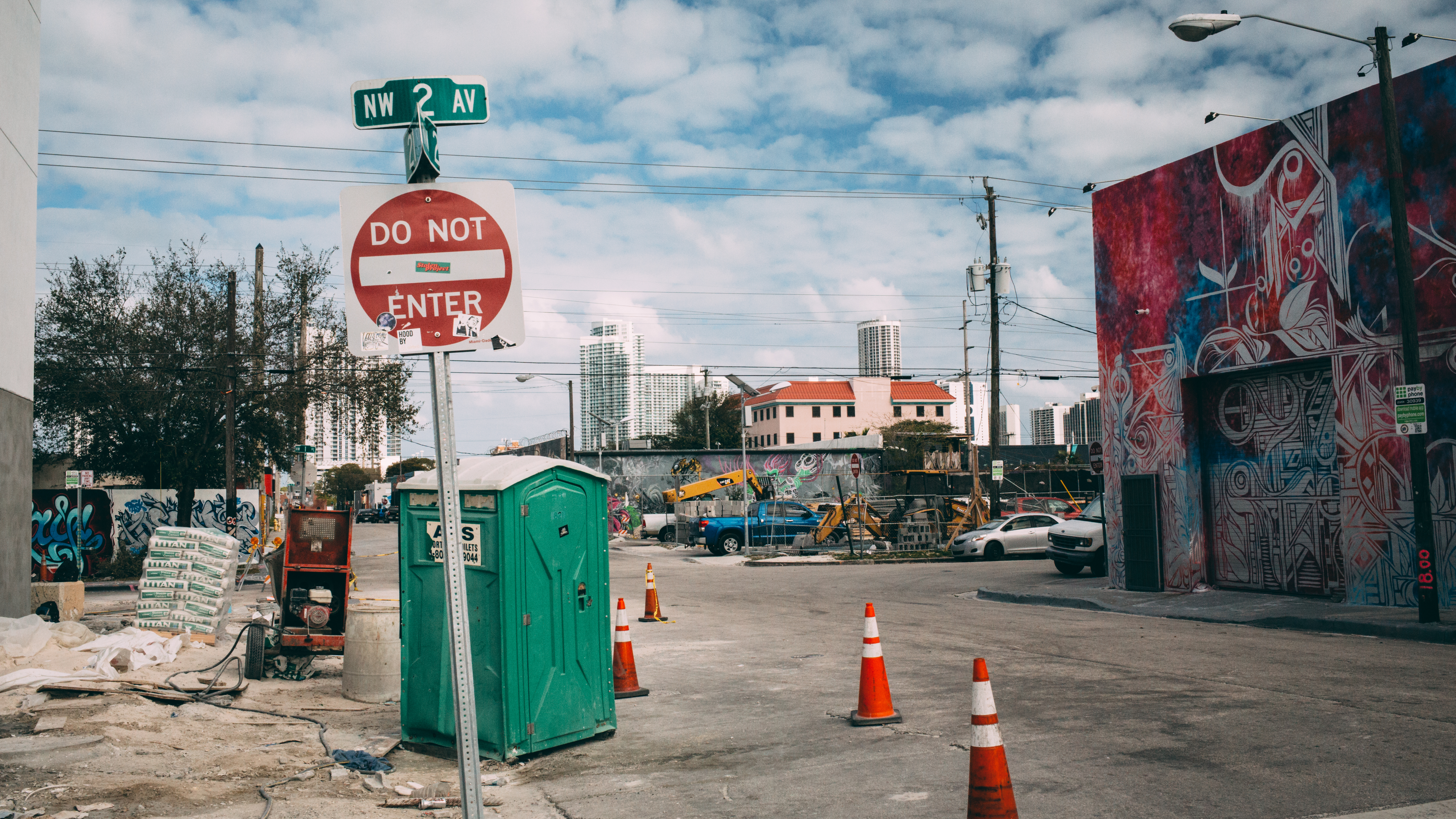 Wynwood, Miami, United States